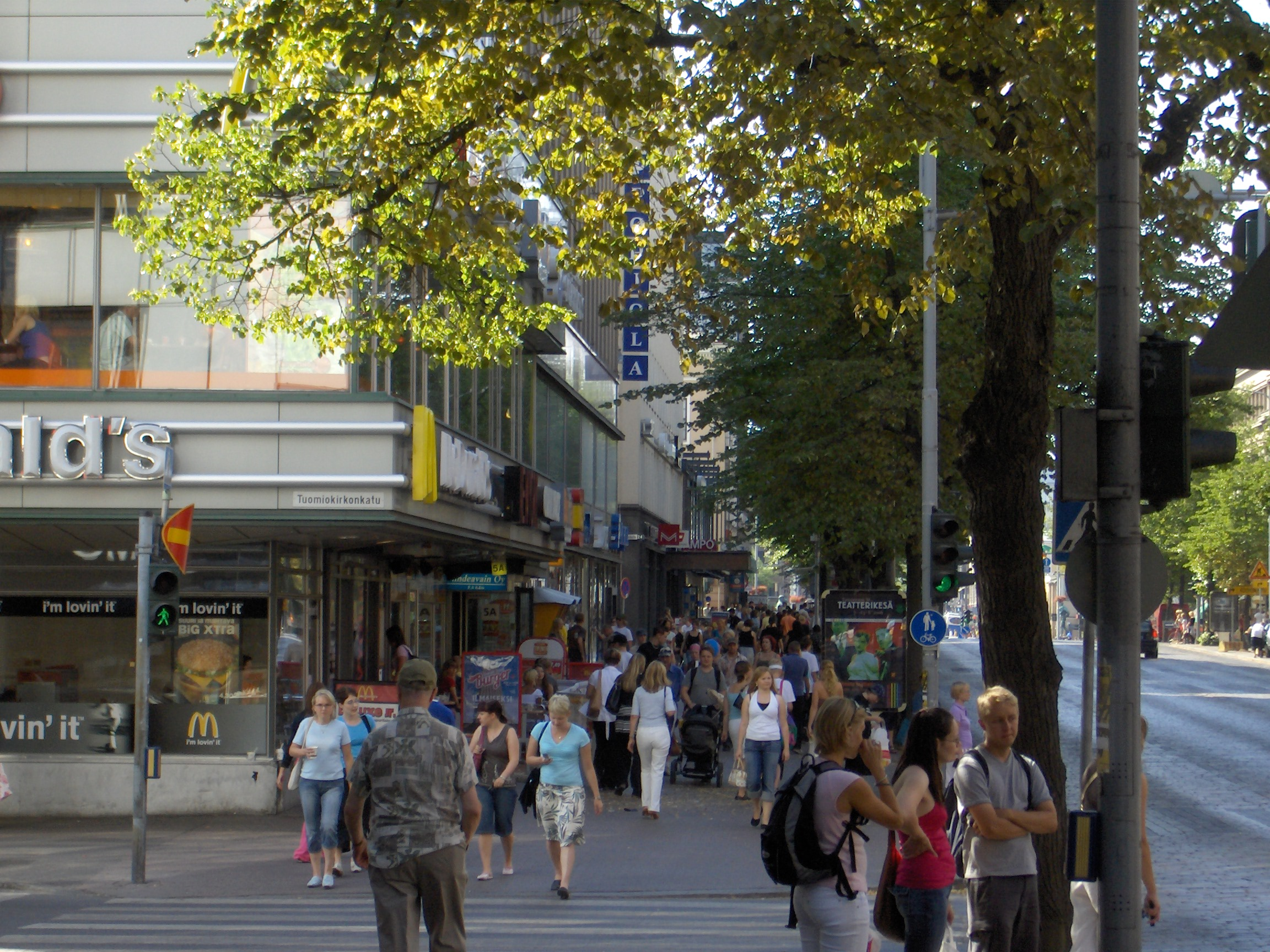 Hämeenkatu, the main street of Tampere